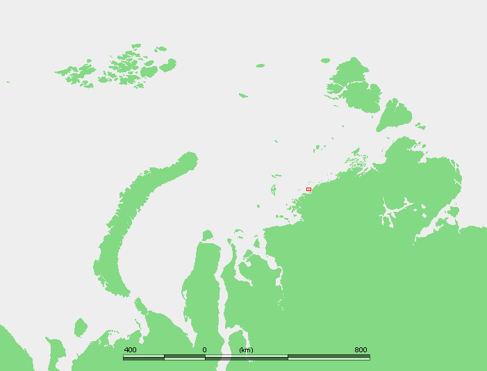 Markgama